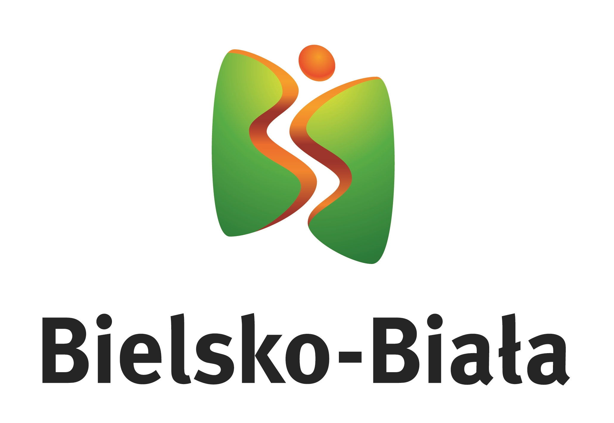 Logo of city Bielsko-Biała from 2013